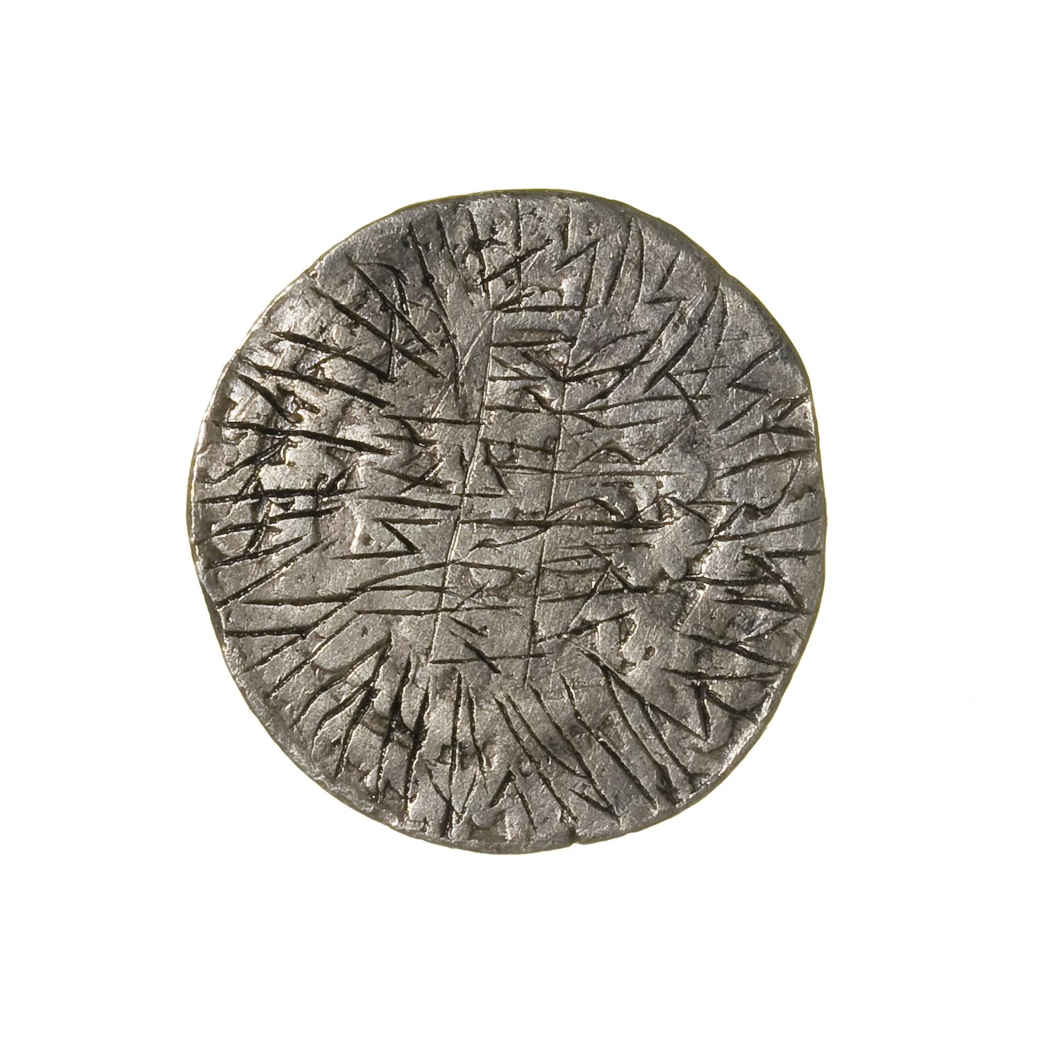 Bornholm amulet, an Arabic silver coin with Latin text written with runic inscription (Bh 61).